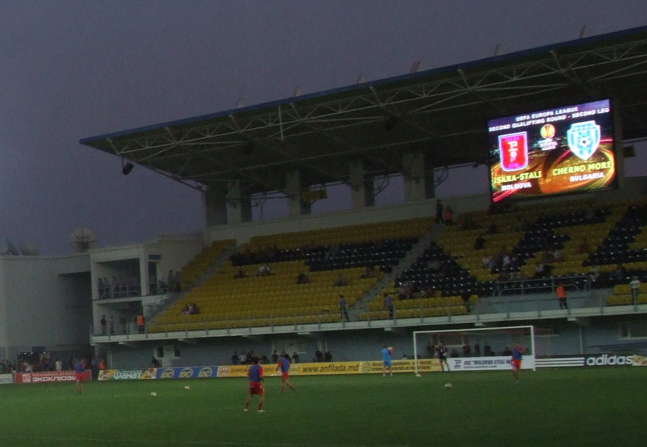 Sheriff Tiraspol stadium by night